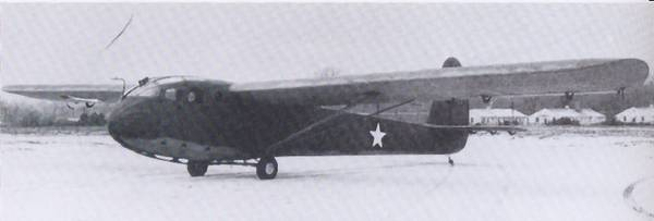 Waco CG-3A light transport glider at Wright Field.